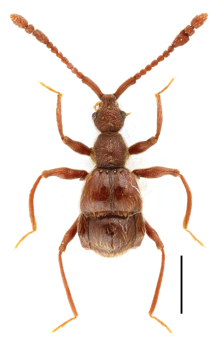 Male habitus of Linan tendothorax. Scale: 1.0 mm.